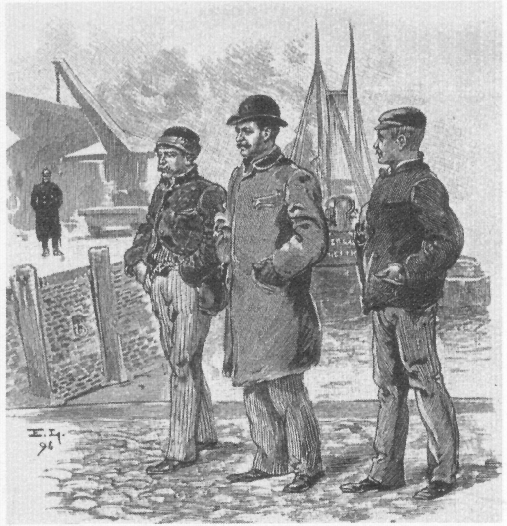 Hamburg Docker’s Strike 1896/97, picket, xylograph of Emil Limmer, 1896